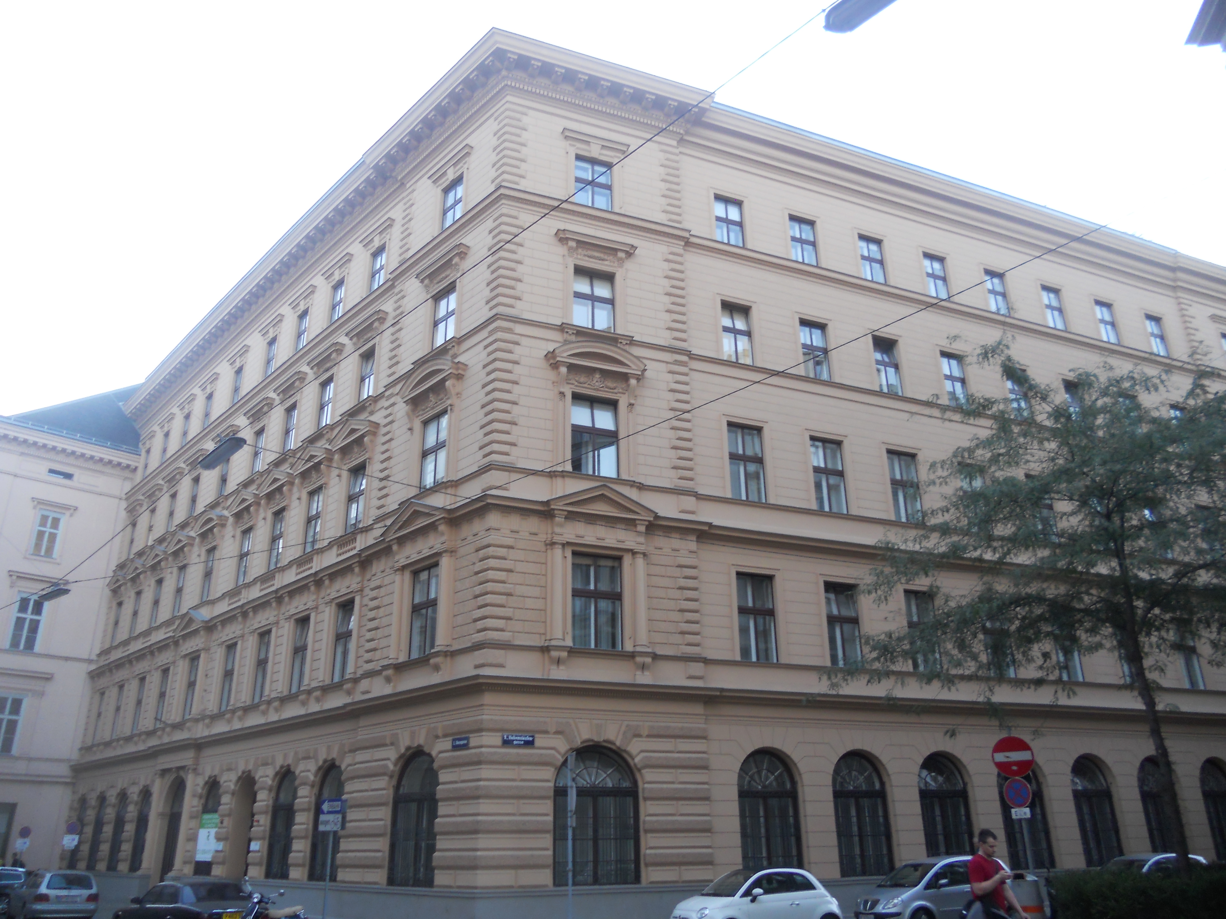 5 Renngasse, hosting the Embassy of Mexico in Vienna (First floor)